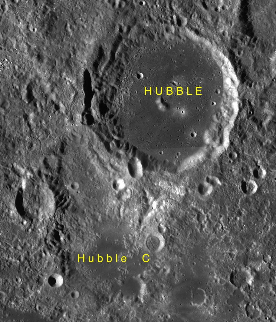 Part of the chart LAC-45